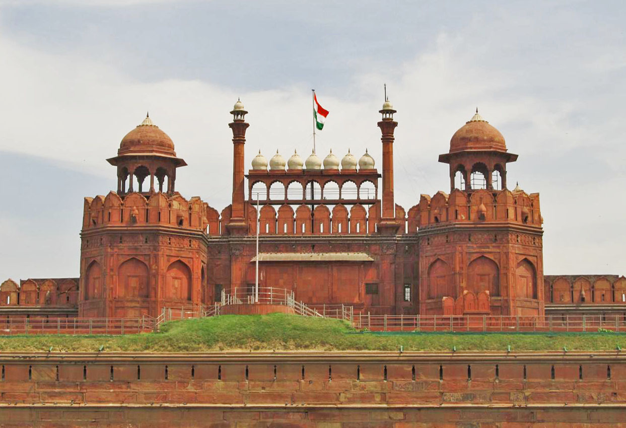 Red fort, Front View, Lahore Gate